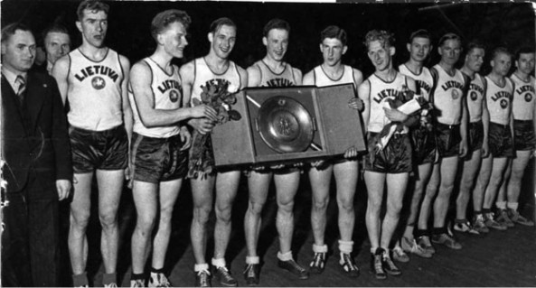 Lithuania national basketball team members after winning their first European title in EuroBasket 1937. Team members are holding Latvia president Kārlis Ulmanis prize. Leonas Petrauskas, one of the team's twelve members, is missing in this picture. The knight riding the horse painted on the national team jersey is the inter-war version of Vytis.